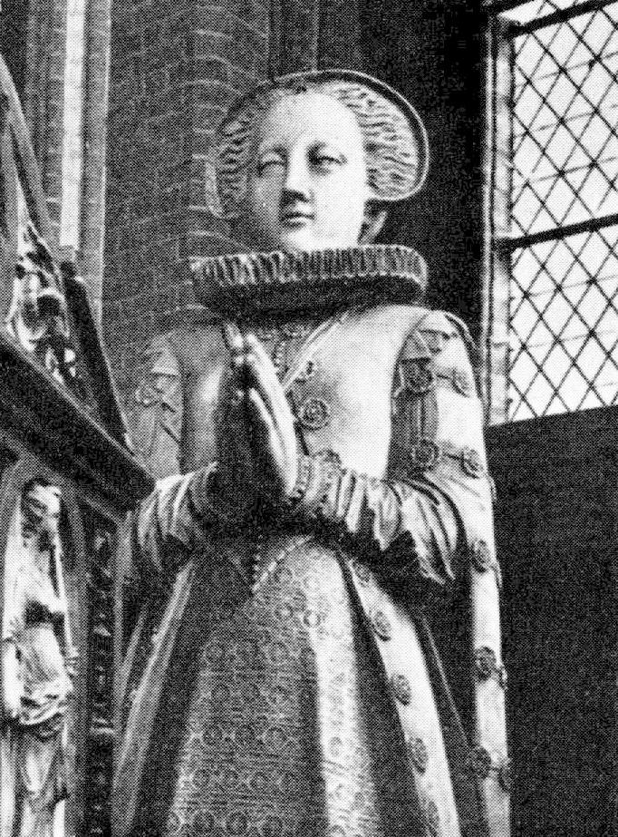 Princess Elizabeth of Sweden, Duchess of Mecklenburg; bust on her cenotaph in Schwerin Cathedral